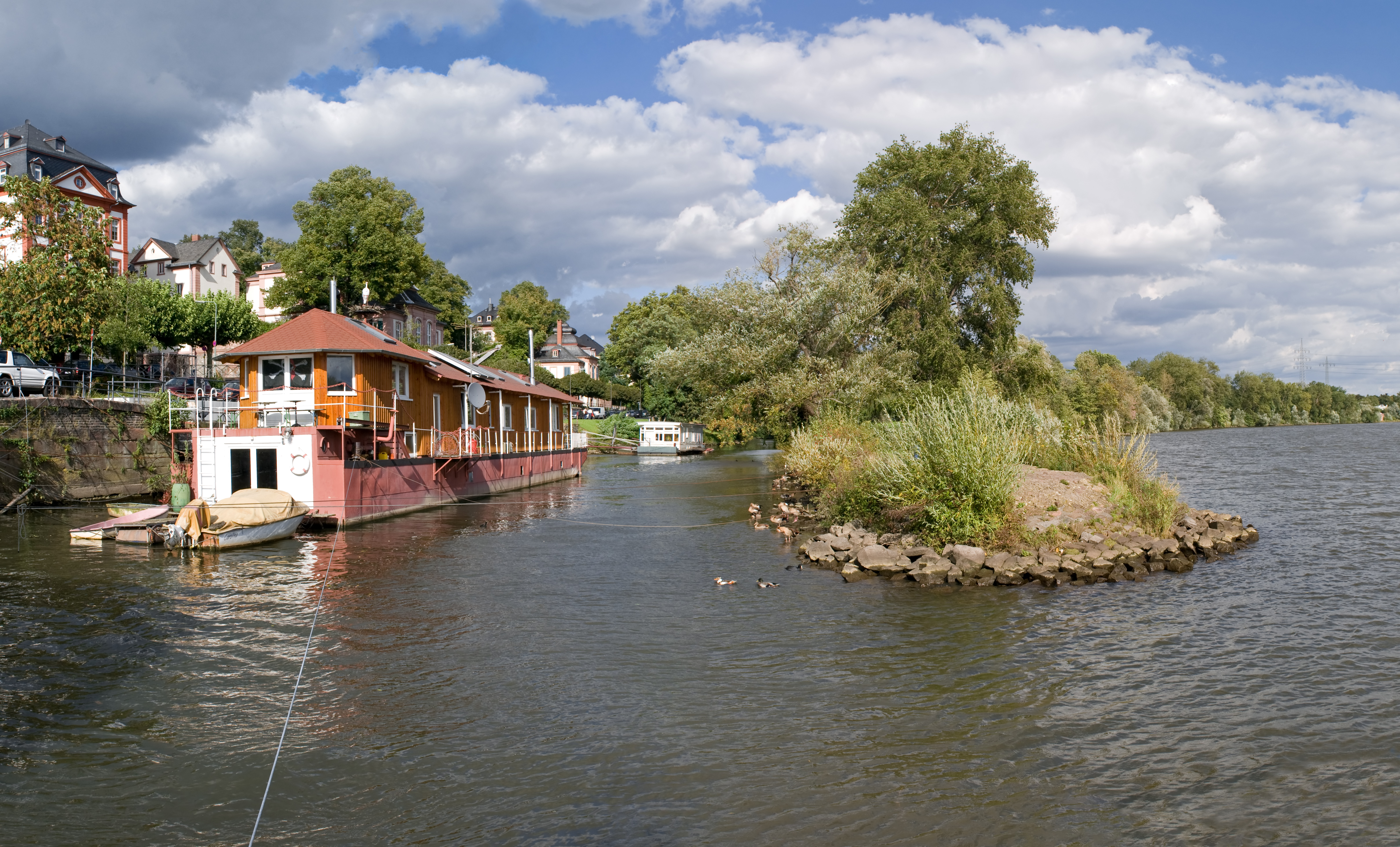 Nidda estuary with houseboats in Frankfurt-Höchst